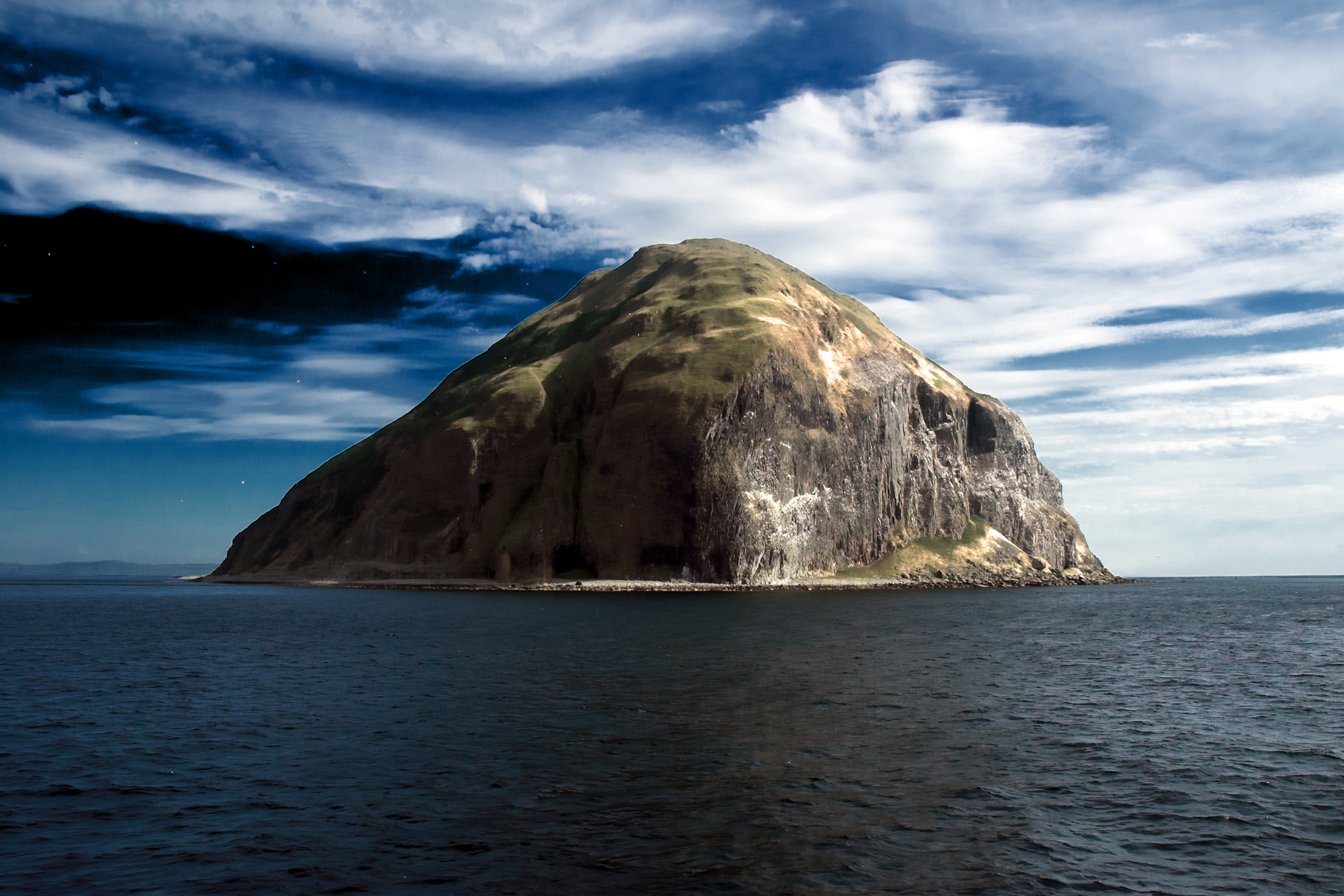 The round Ailsa Craig on the Waverley Paddle Steamer returning to Ayr. It is an island in the outer Firth of Clyde, Scotland where granite was quarried to make curling stones. "Ailsa" is pronounced "ale-sa", with the first syllable stressed.